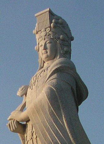 A Mazu statue in Kinmen, Republic of China (Taiwan)